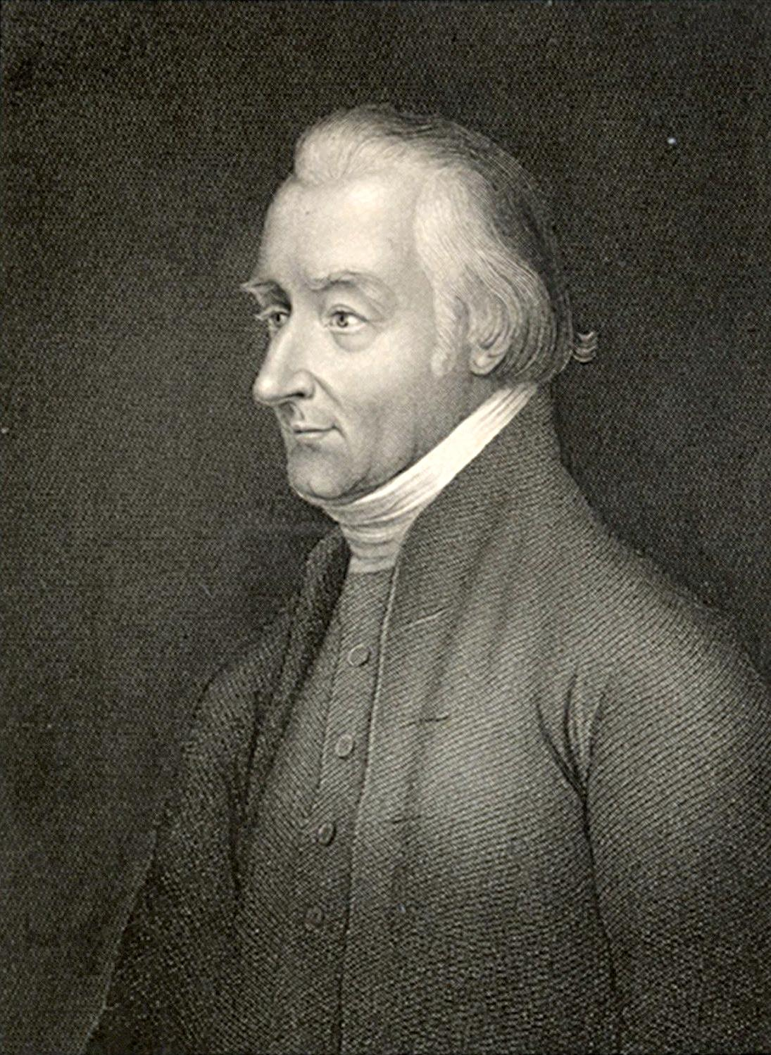 Lindley Murray (1745-1826), autographed portrait